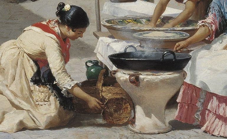 Rosquilla Sellers in a Corner of Seville (except) Oil on canvas, 107 x 81 cm, Inv. CTB.1987.29